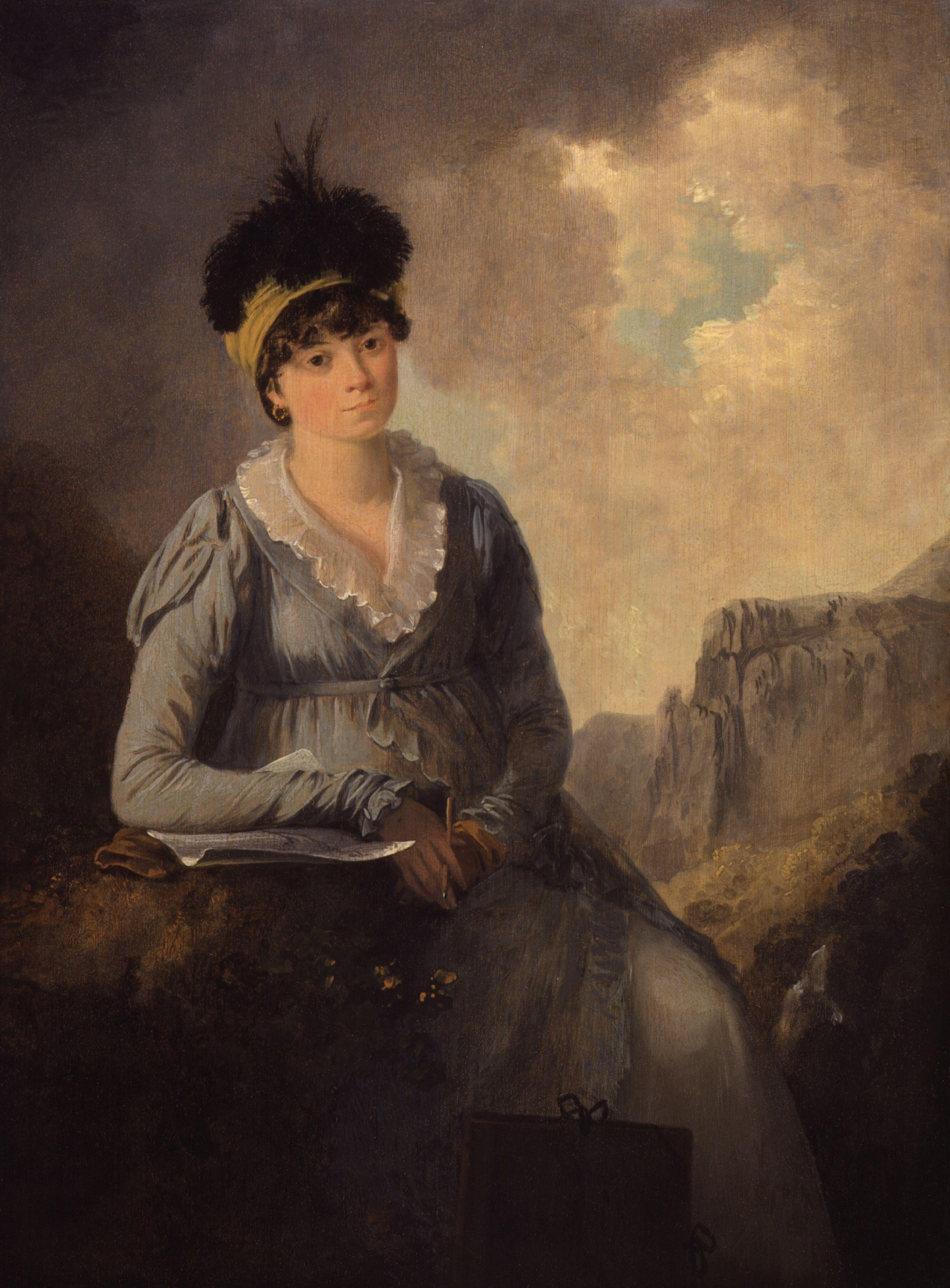 Bella Ibbetson (née Thompson), by Julius Caesar Ibbetson (died 1817). All images in this batch have been confirmed as author died before 1939 according to the official death date listed by the NPG.